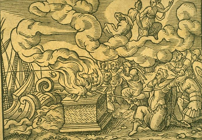 Iphigenia Saved. Engraving by Virgil Solis for Ovid's Metamorphoses Book XII, 24-38.